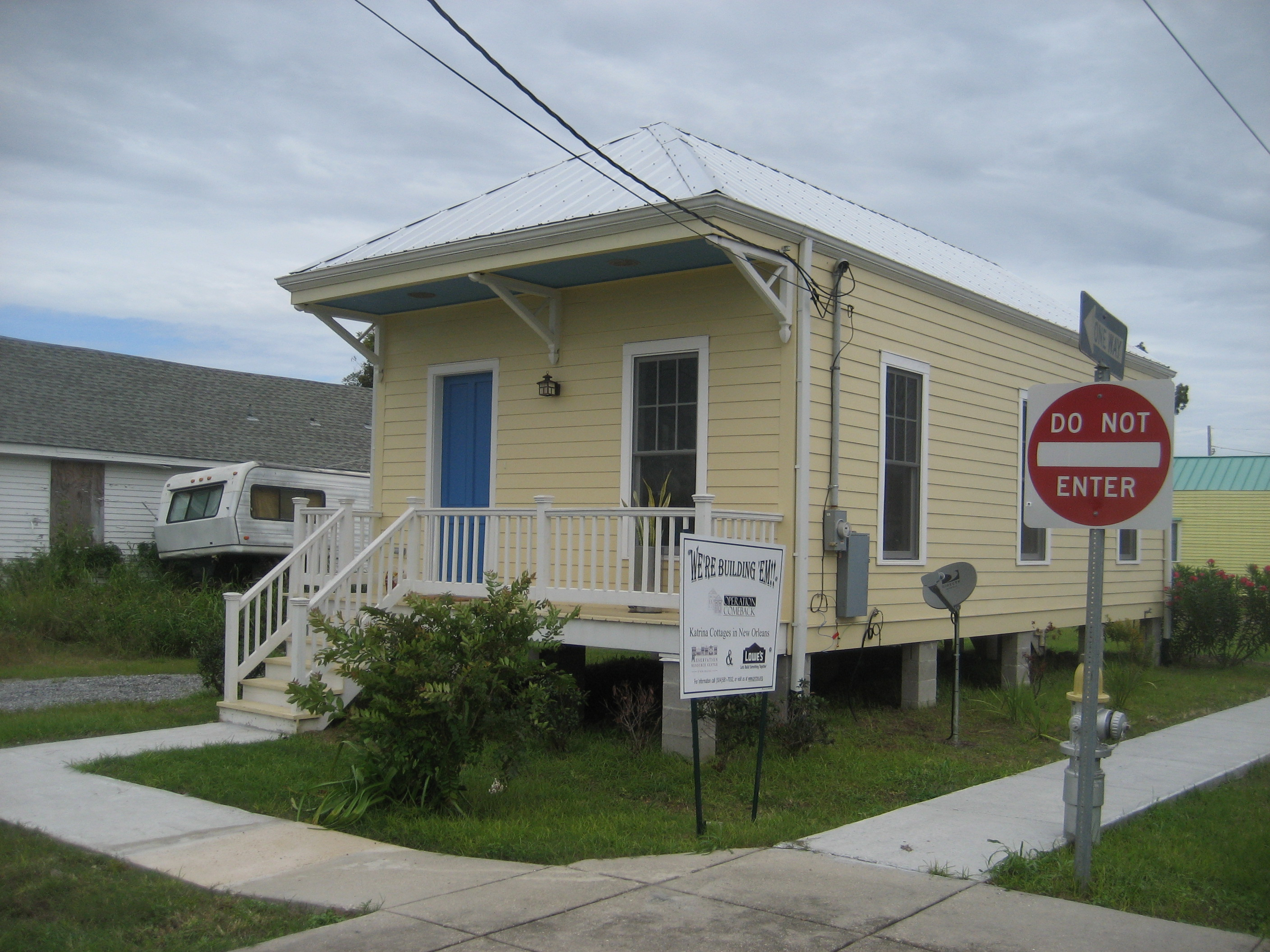 New housing in the Lower 9th Ward of New Orleans. "Katrina Cottage".